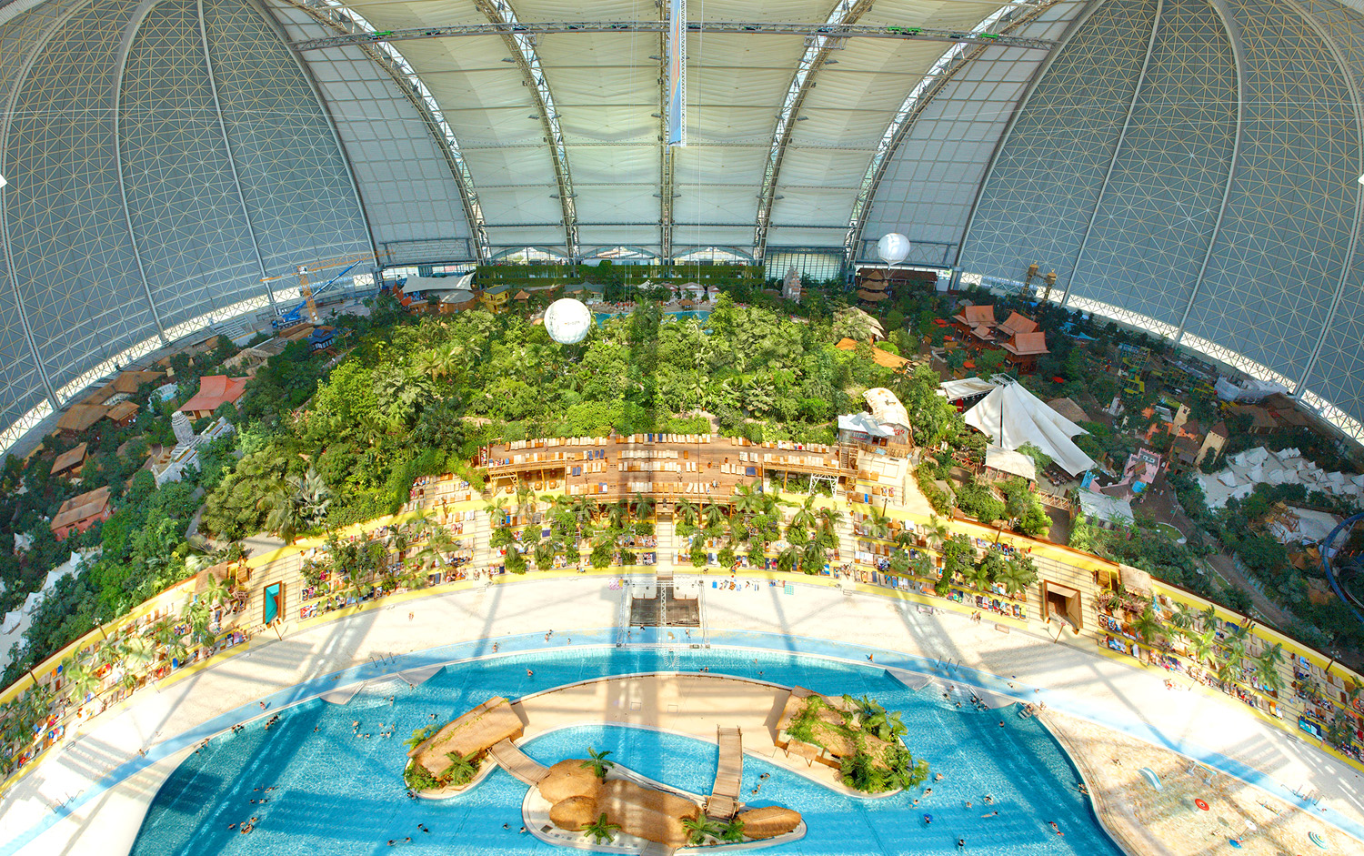 Tropical Islands overview